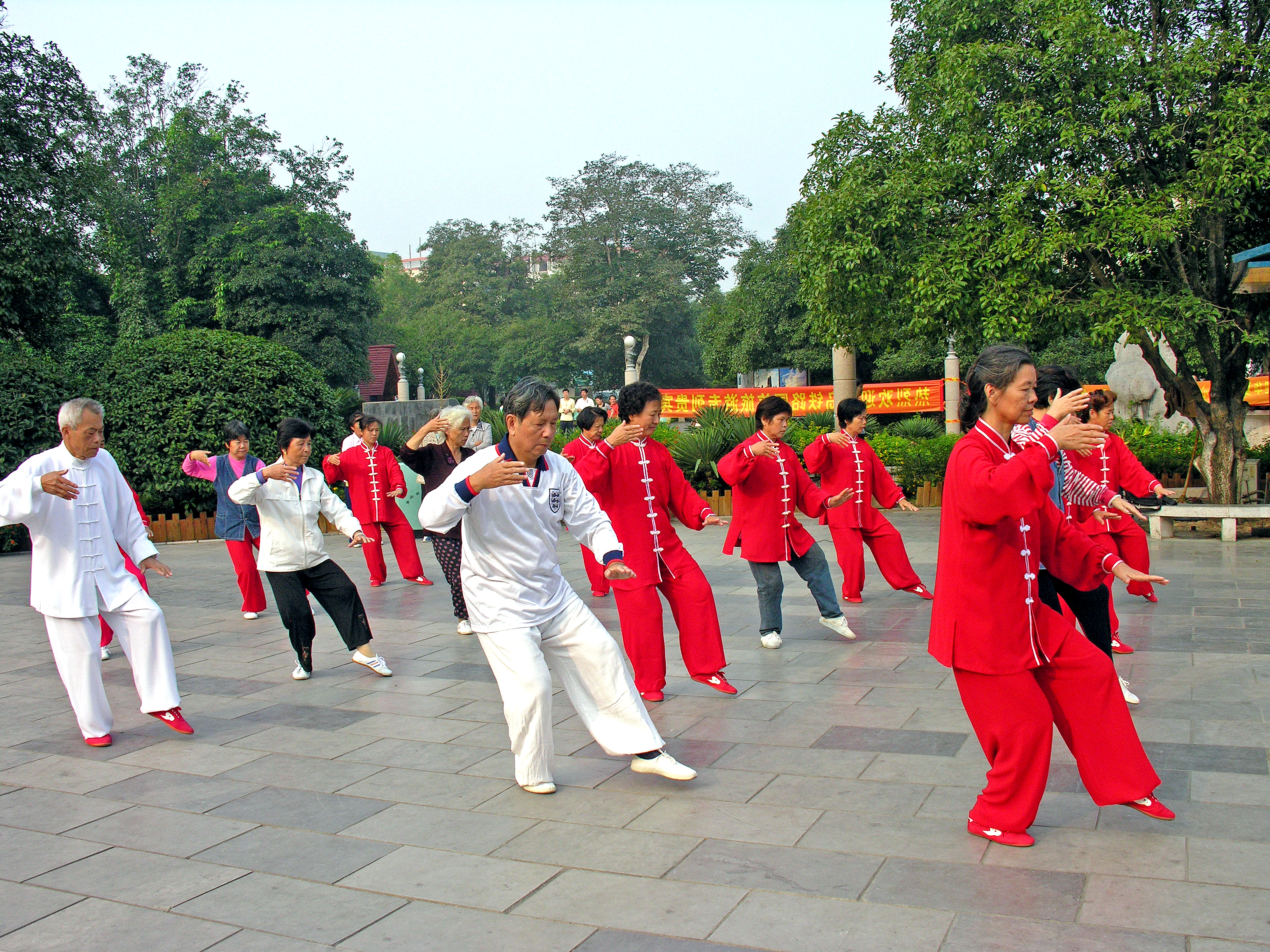 When I arrived to see Elephant Trunk Hill these people were performing their exercises.